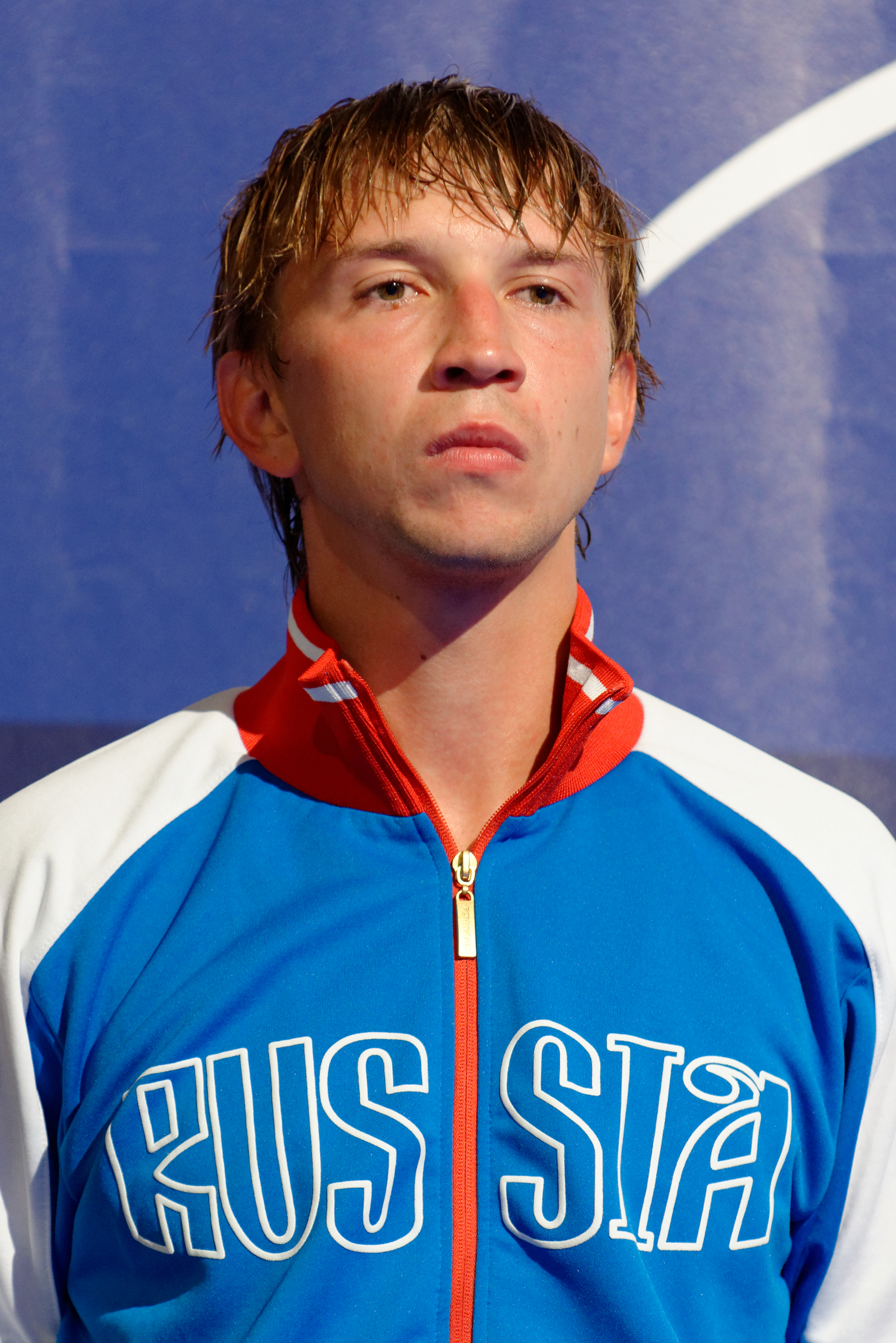 Russia's Nikolay Kovalev stands on the men's sabre podium of the 2013 World Fencing Championships 2013 at Syma Hall in Budapest, 10 August 2013.